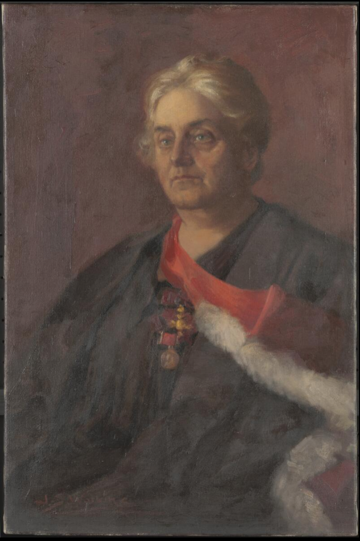 Dr Mary Booth OBE (1869–1956) was an Australian physician, club woman and welfare worker.